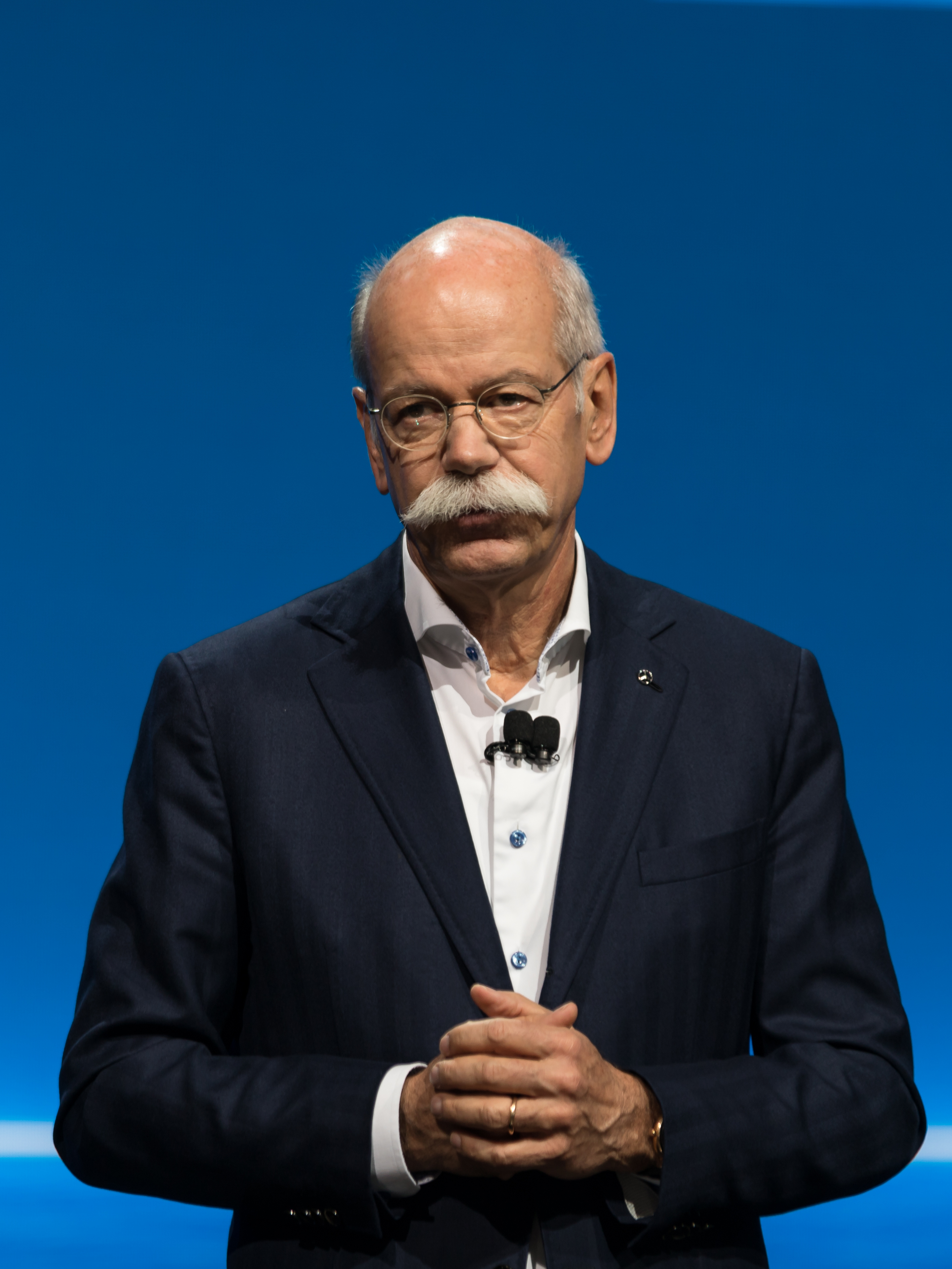 Geneva International Motor Show 2018